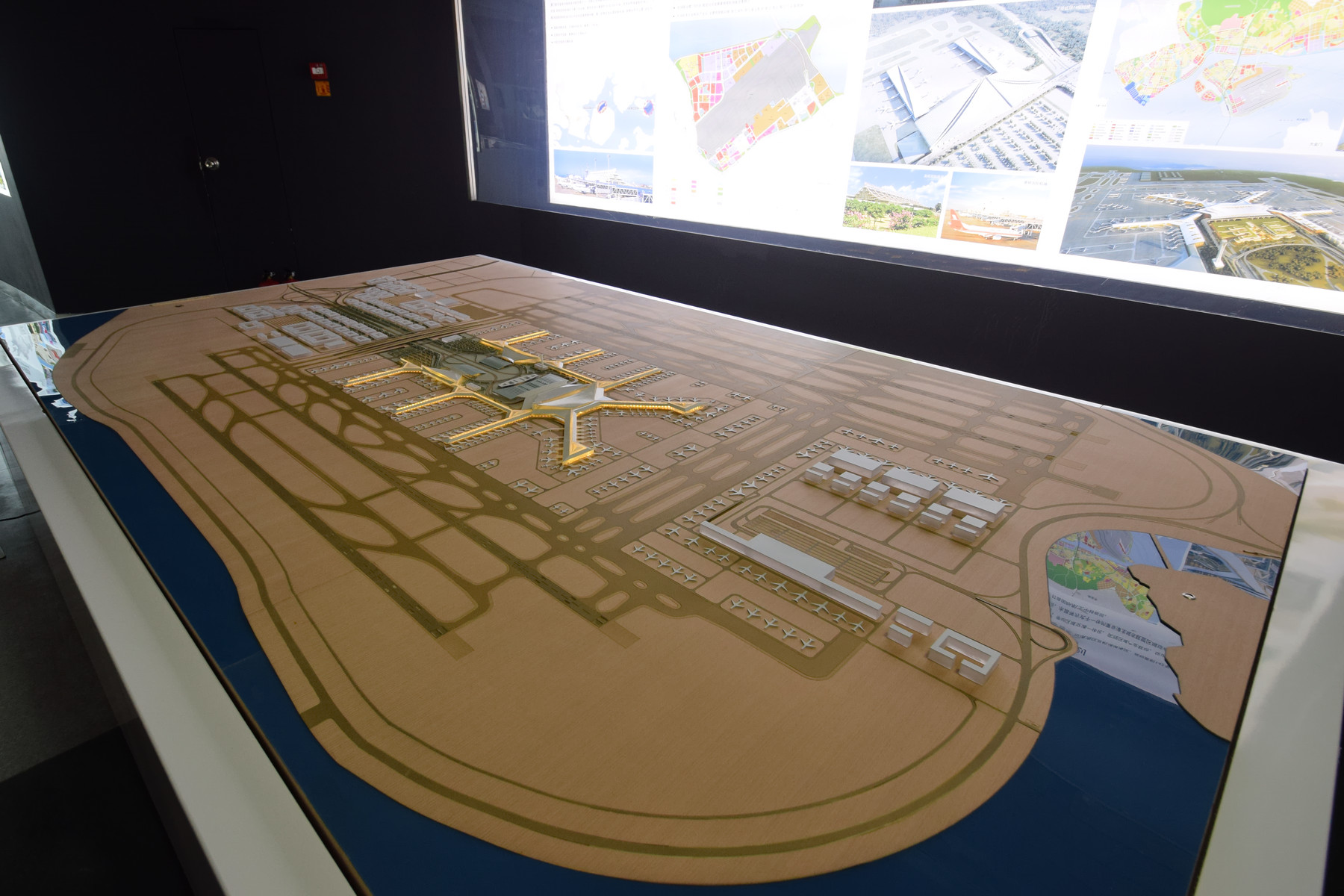 Building model of Xiamen Xiang'an International Airport, permanently displayed at Xiamen Planning Exhibition Hall. Creater of this model was staff member / related people of Xiamen Planning Exhibition Hall.